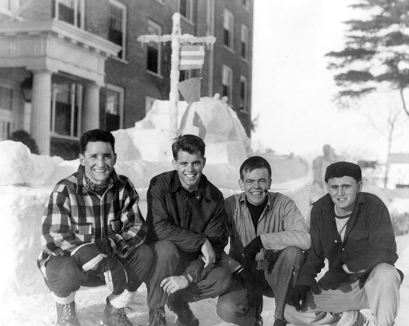 As a seaman apprentice Robert F. Kennedy studied on the campus of Bates College in Lewiston, Maine. He attended the V-12 Naval Training Program from November 1944 – June 1945, earning a V-12 degree in 1944.